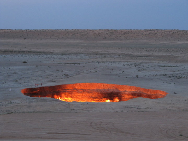 Derwezeh gas crater, Turkmenistan